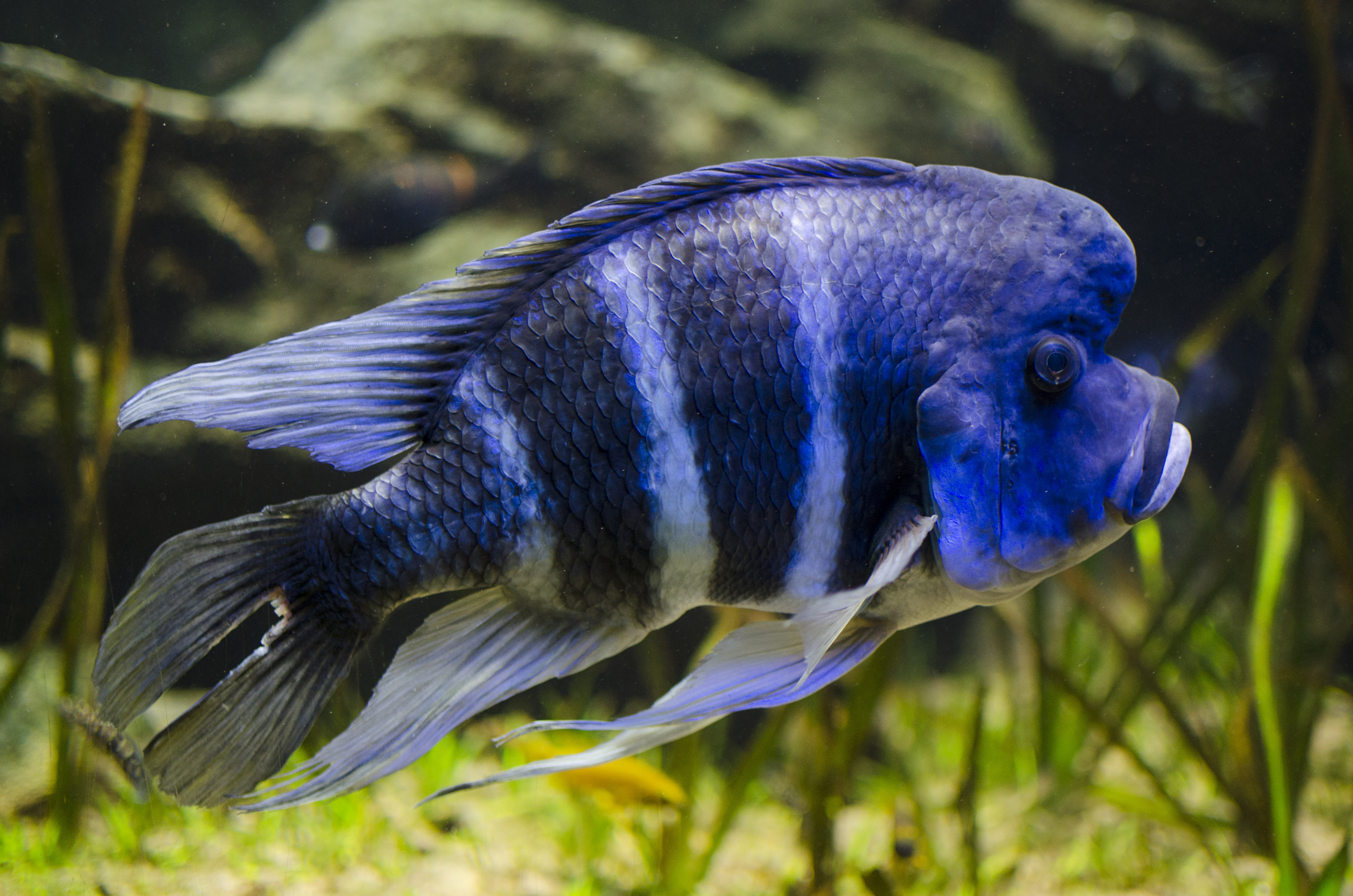 Cyphotilapia frontosa in the Cologne Zoo